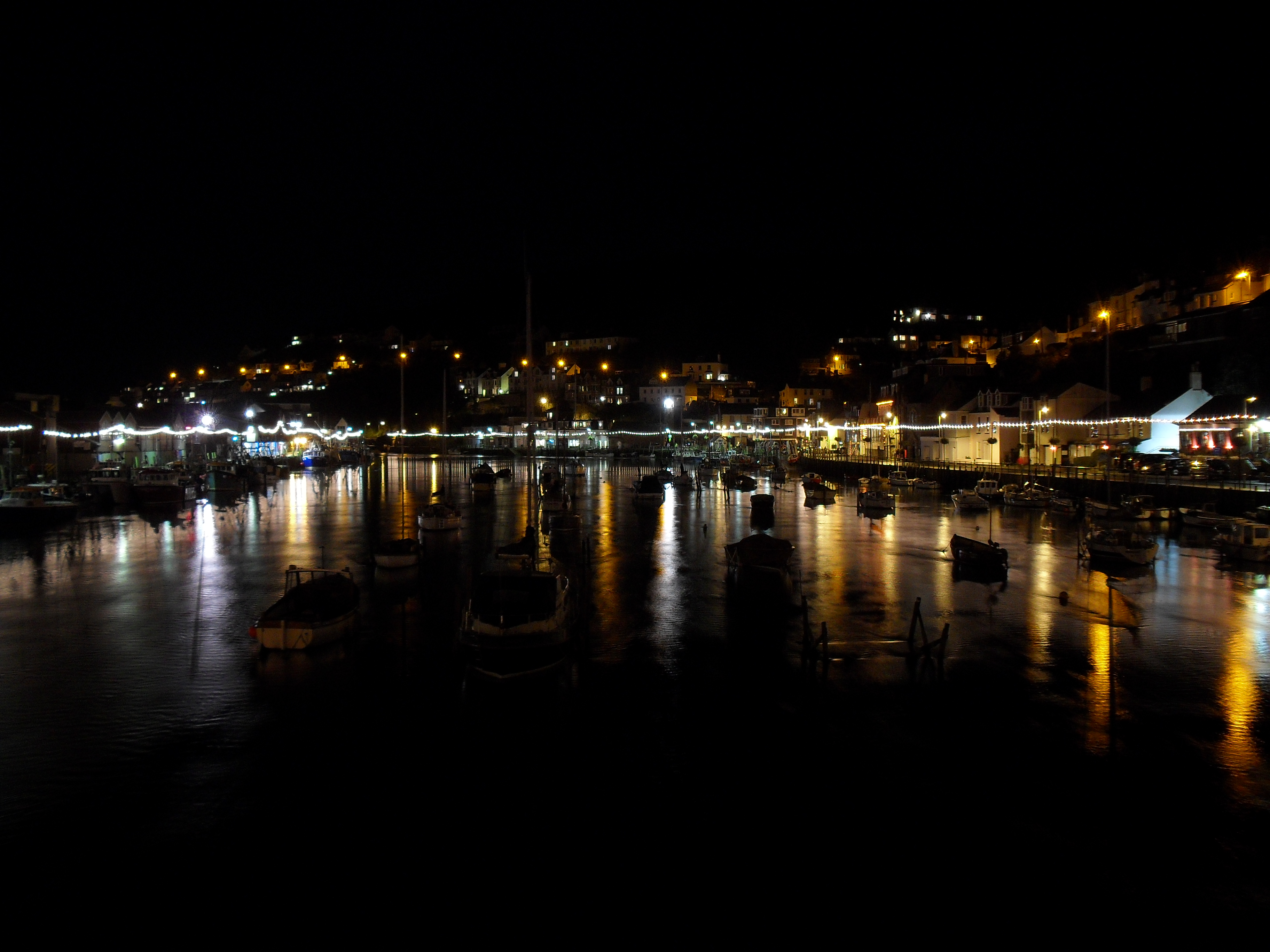 Looe at night.